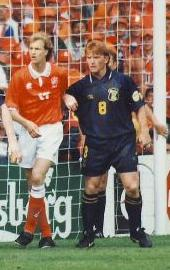 Stuart McCall (blue) playing for Scotland against Netherlands in Euro 96